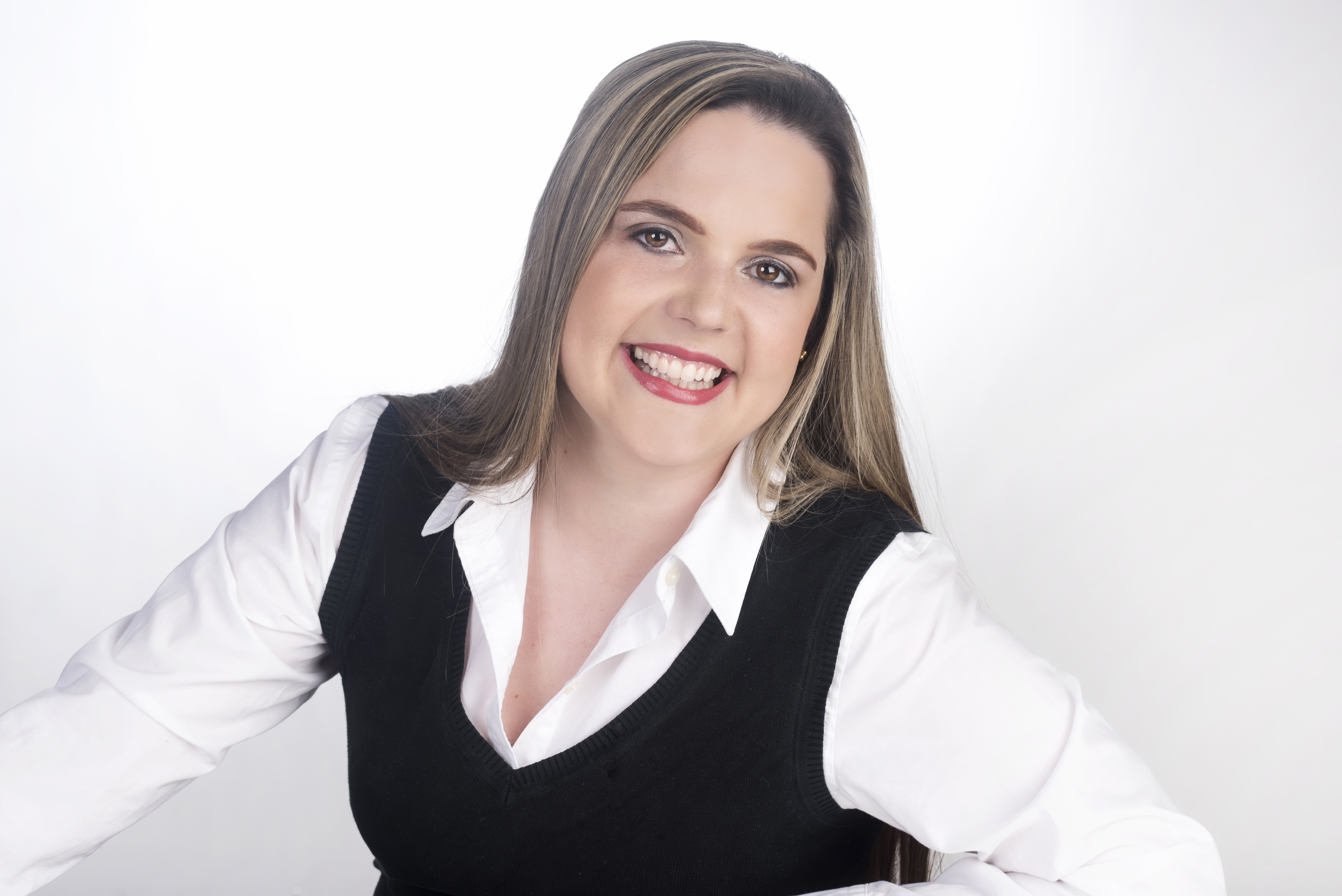 Bircher Martina, member of the Swiss National Council